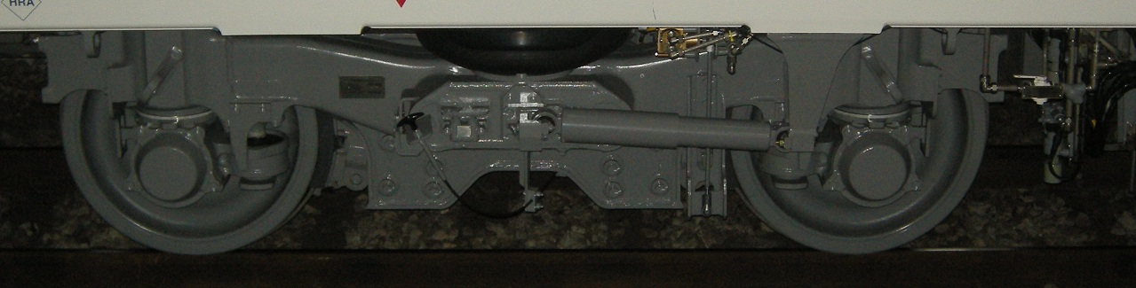 Type ND-742M bogie truck of Taiwan Railway TEMU2000 series.